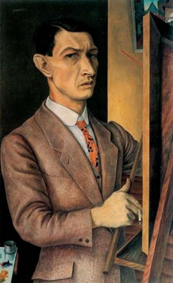 Self-portrait